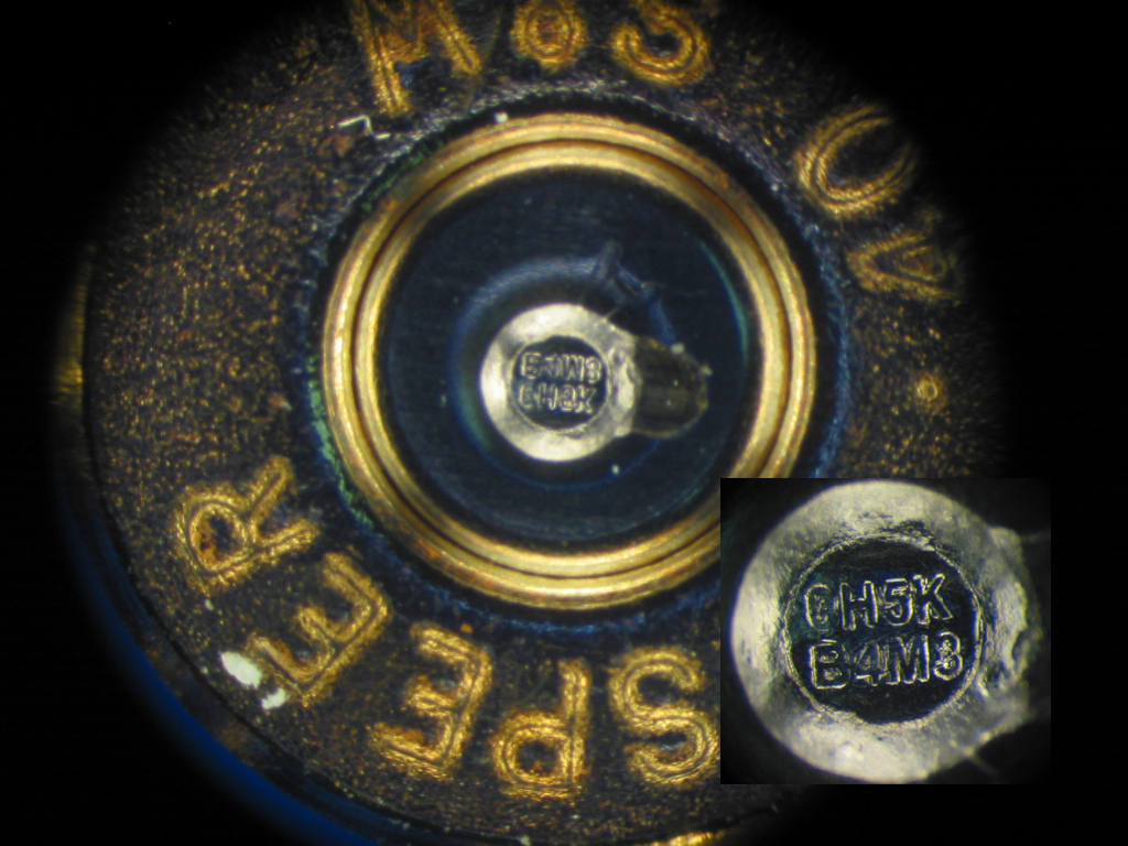 ID Dynamics / Todd Lizotte Reference Images / Ballistic Microstamping